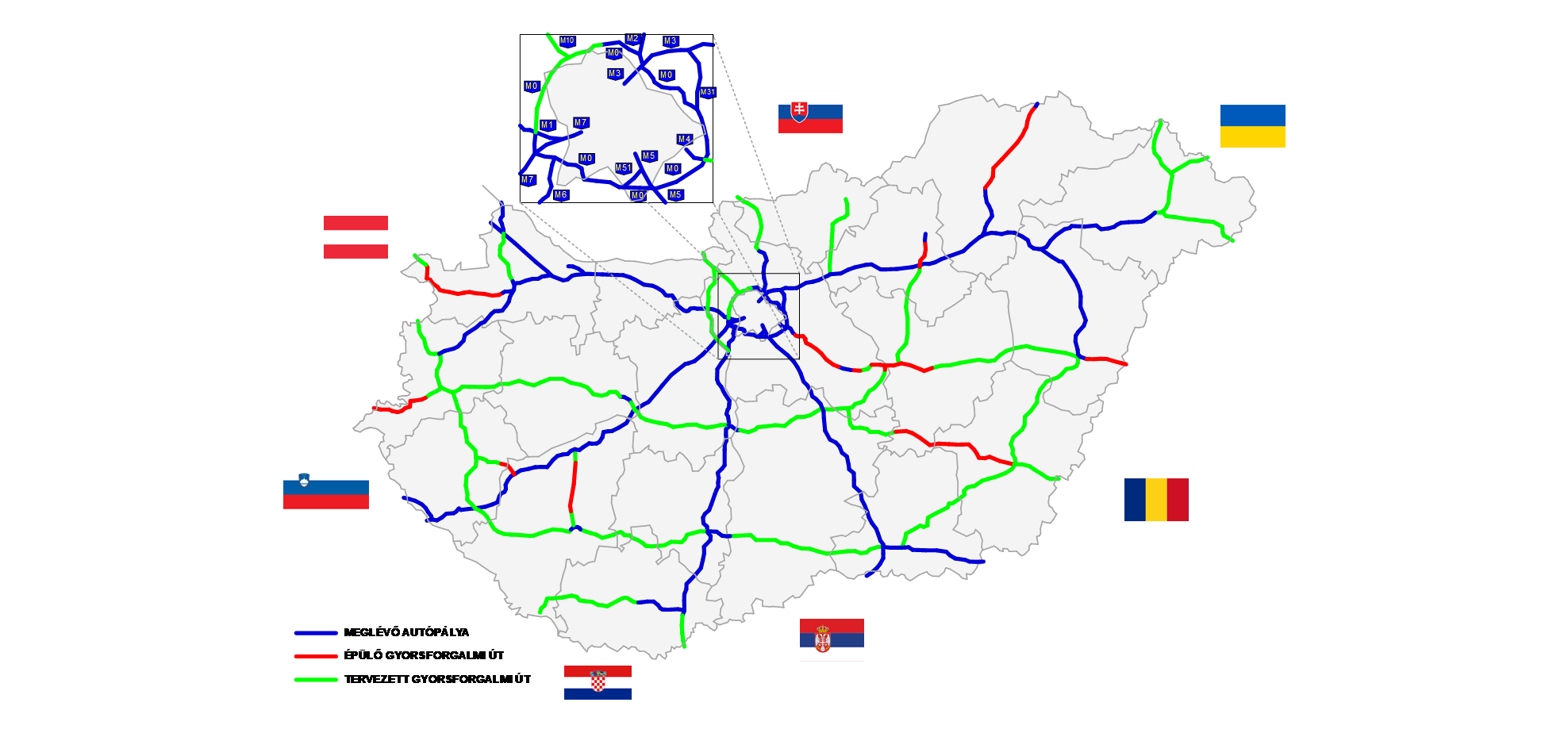 Hungaryan Motorways network 20.12.2018